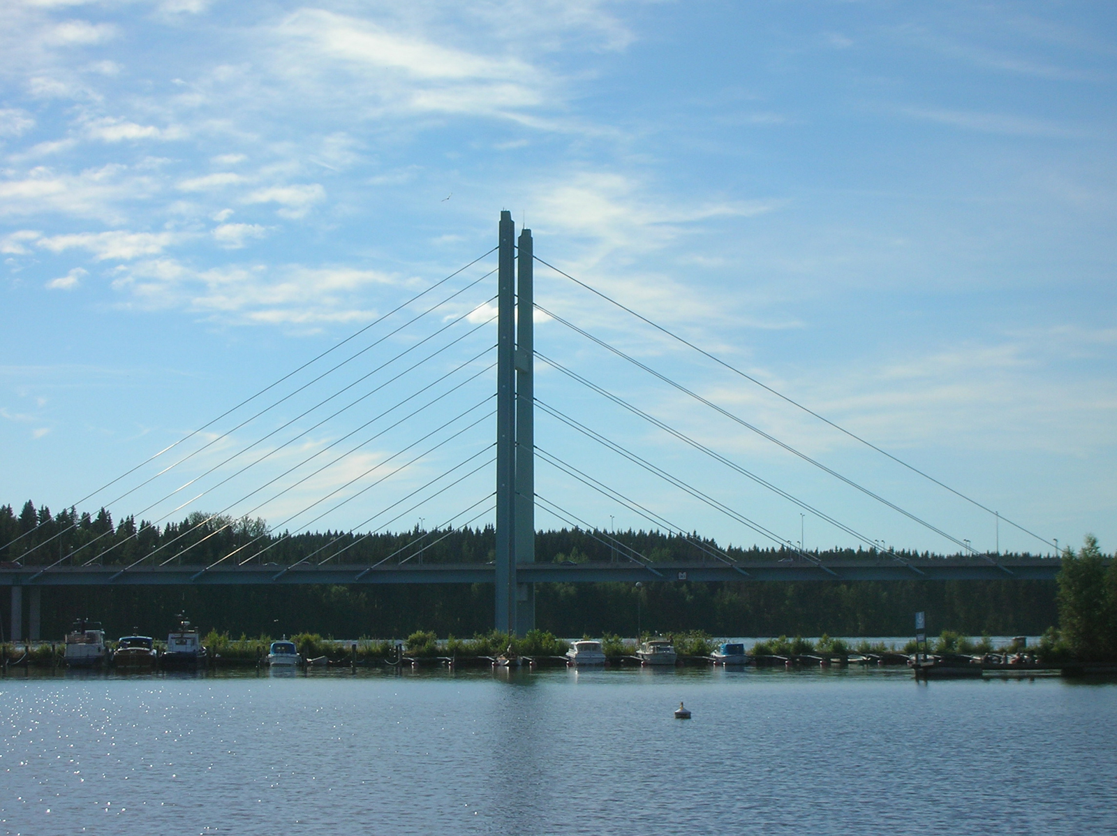 Tähtiniemi Bridge (Tähtiniemen silta or Tähtisilta) in Heinola, Finland